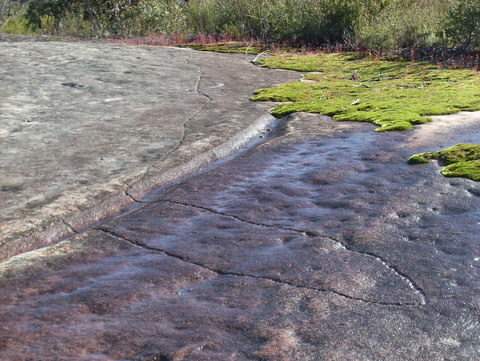 20 metre long petroglyph at Ku-Ring-Gai_Chase_National_Park, West Head